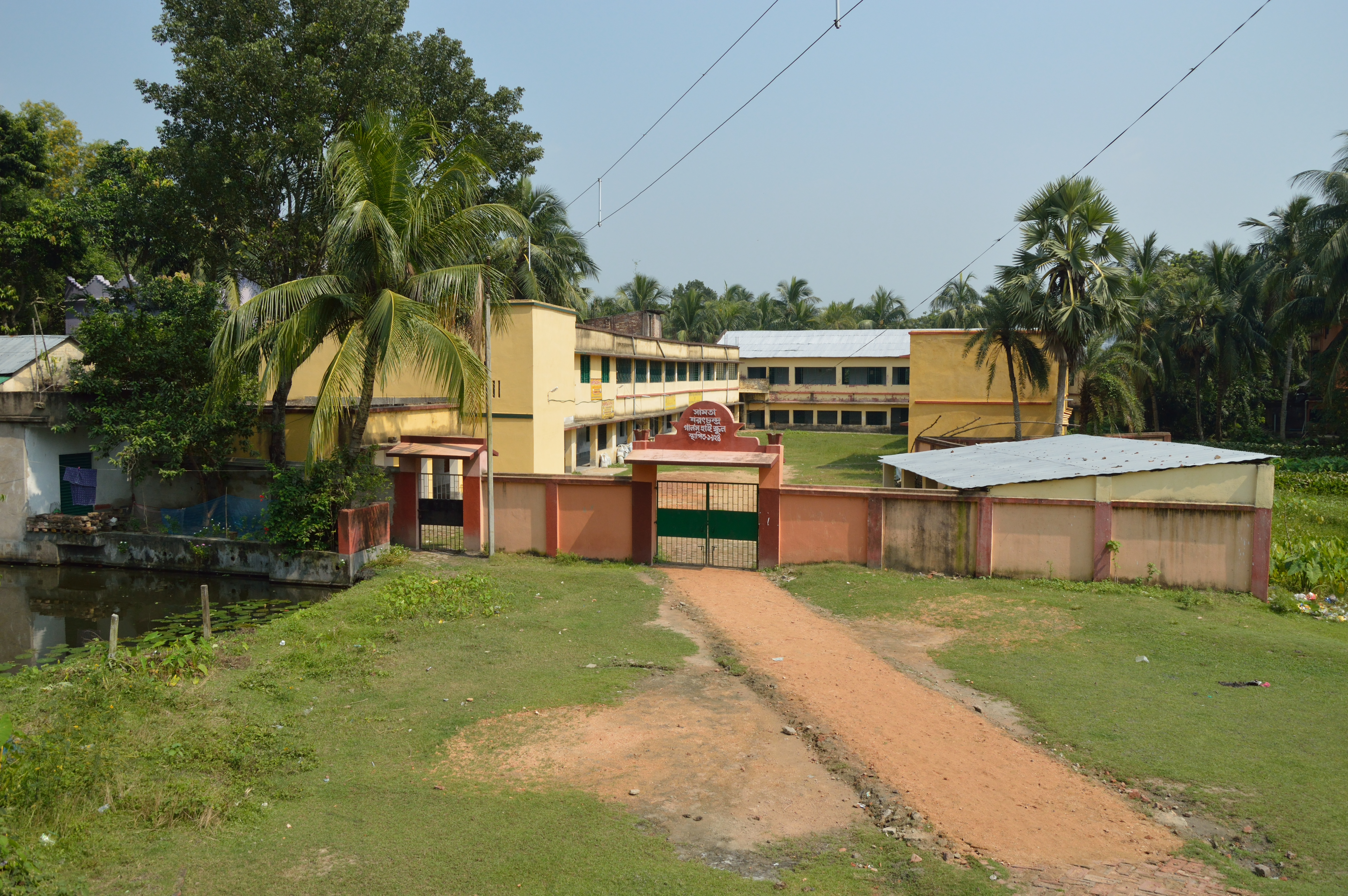 Phtographed at Bagnan, Howrah.